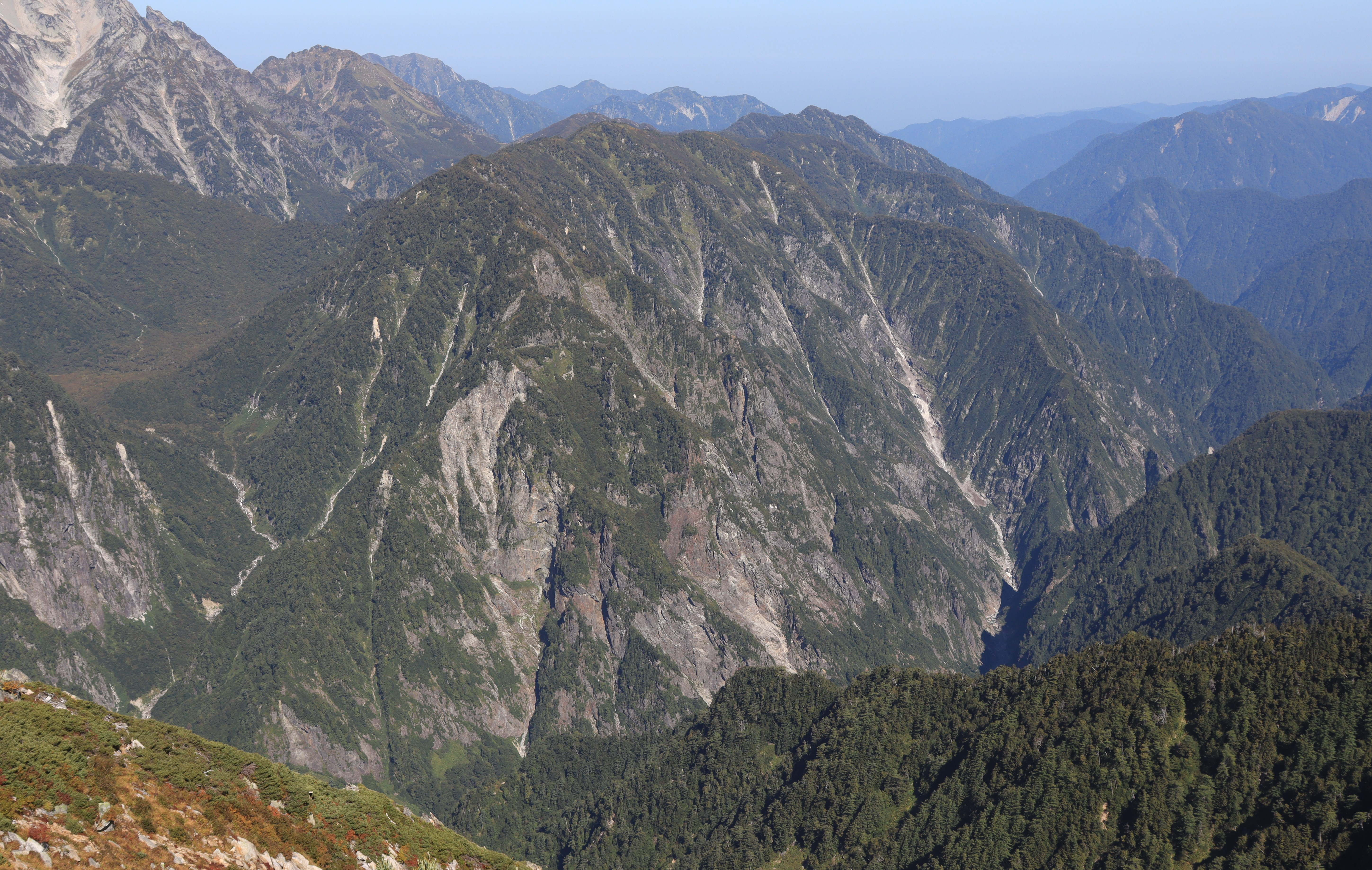 Kurobebessan seen from Mount Akasawa in Tateyama, Toyama Prefecture, Japan.